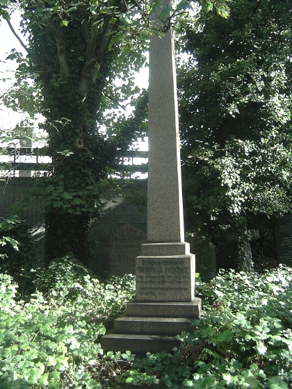 Photograph of Thomas Binney's memorial at the Congregationalist's nondenominational Abney Park Cemetery.